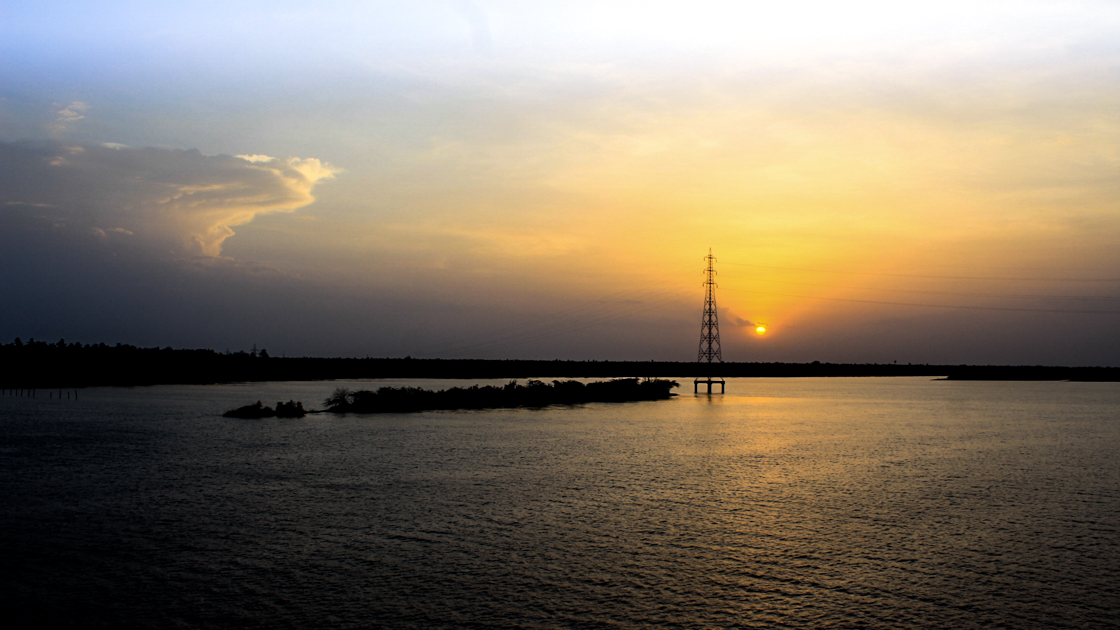 The river of Pleasantness, Godavari offers Candid Reflections during Sunrise & Sunset from different viewpoints of Konaseema, the Coastal belt of Andhra Pradesh, India. This Magic Hour Shot captured at Amalapuram, in Andhra Pradesh state of India.